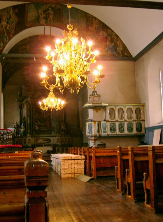 Interior view towards the east of Our Lady's church, Trondheim, Norway, November 2006.